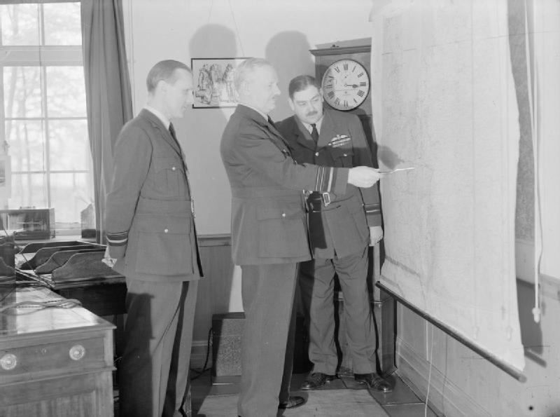 Air Marshal A T Harris, Commander in Chief, Bomber Command points to a location on a map of Germany hanging in his office at Bomber Command Headquarters, High Wycombe, Buckinghamshire. On the left stands Air Vice-Marshal R Graham (left) the Air Officer Administration at BCHQ, and on the right Air Vice-Marshal R H M S Saundby, Harris's Senior Air Staff Officer.